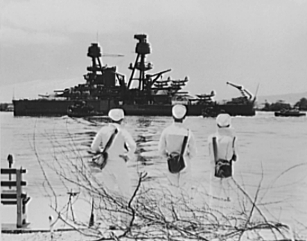 Severely damaged and beached during the Japanese attack on Pearl Harbor, the USS Nevada gets ready to leave her Hawaiian anchorage for permanent repairs at a U.S. port. Temporary repairs made at Pearl Harbor enabled the battleship to make the voyage under her own power.